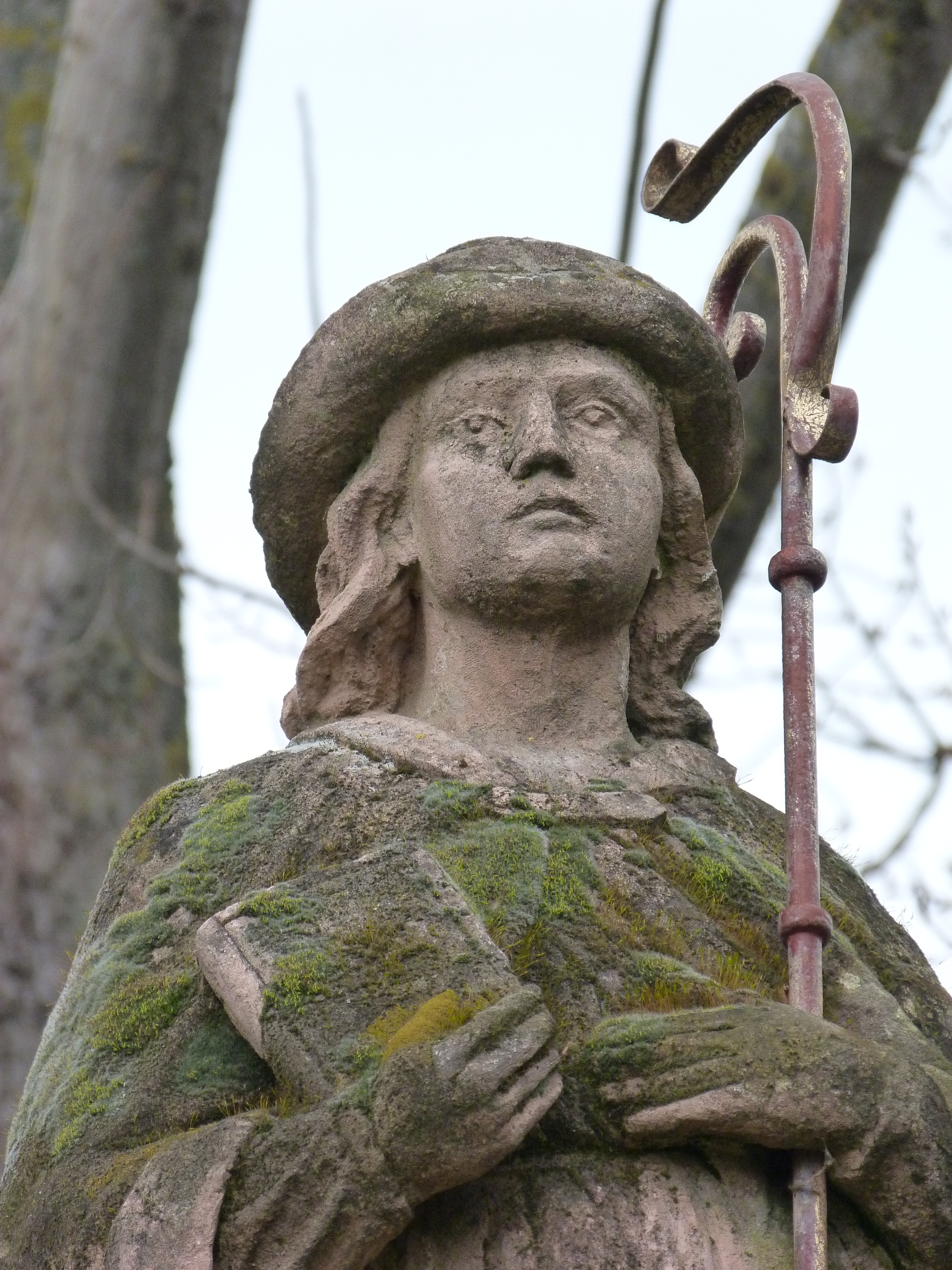 A felvétel 2016. március 7-én, hétfőn készült Hegymagason. Szent Vendel.